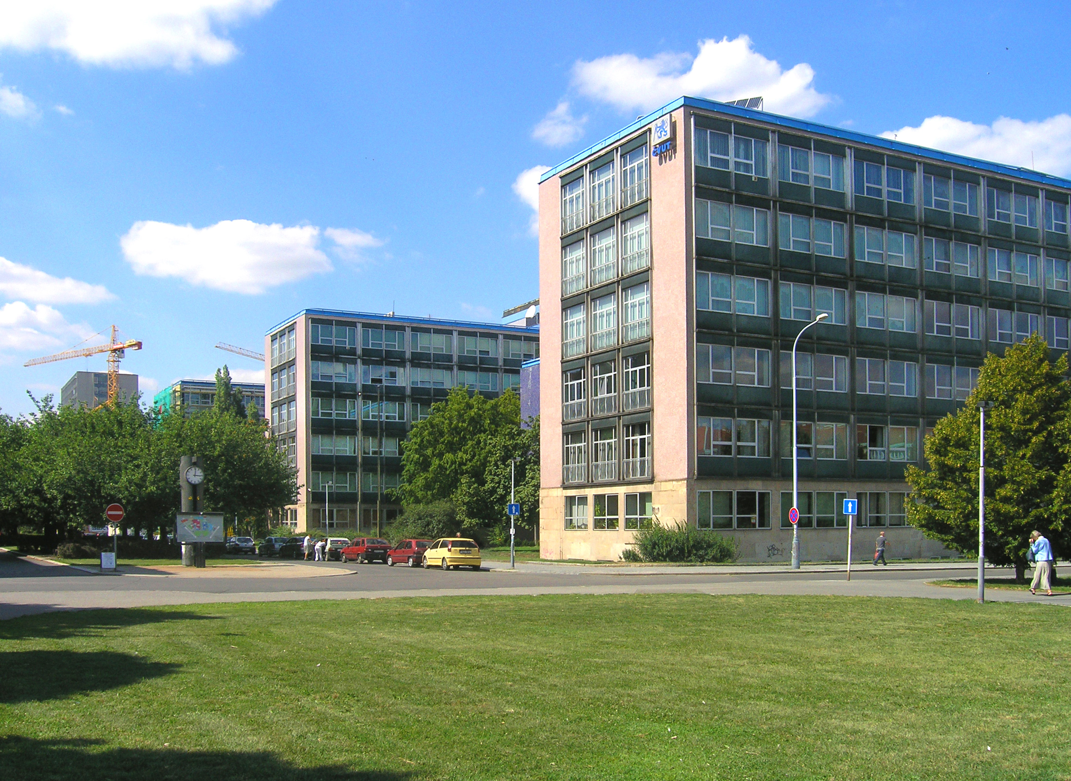 Overall view on part of Czech Technical University at Technická street at Dejvice, Prague